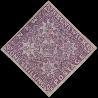 First postage stamp of New Brunswick (now Canada), 1 shilling, 1851, scott#3